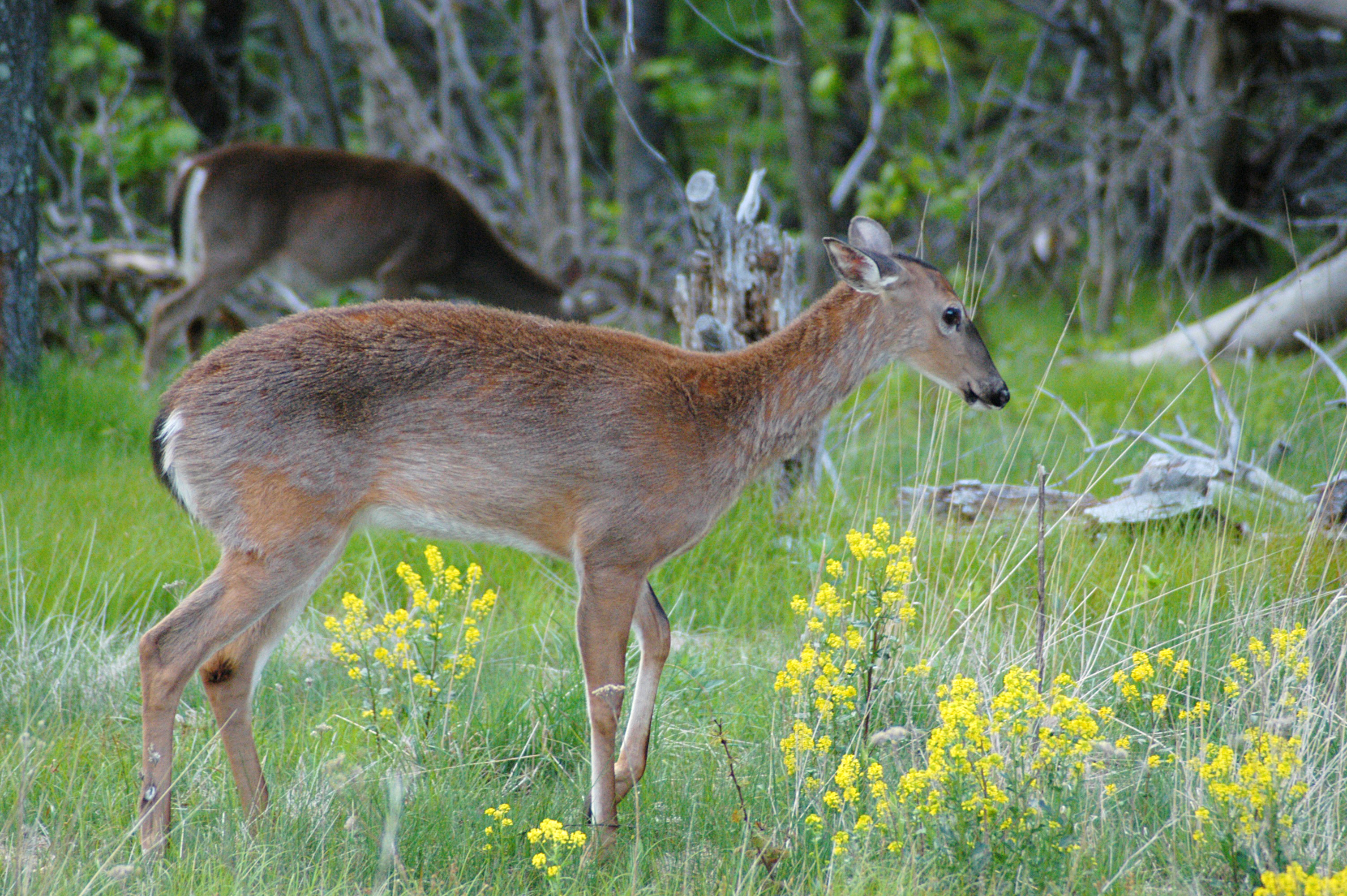 Deer at Tanner Ridge Overlook in Shenandoah National Park in Virginia